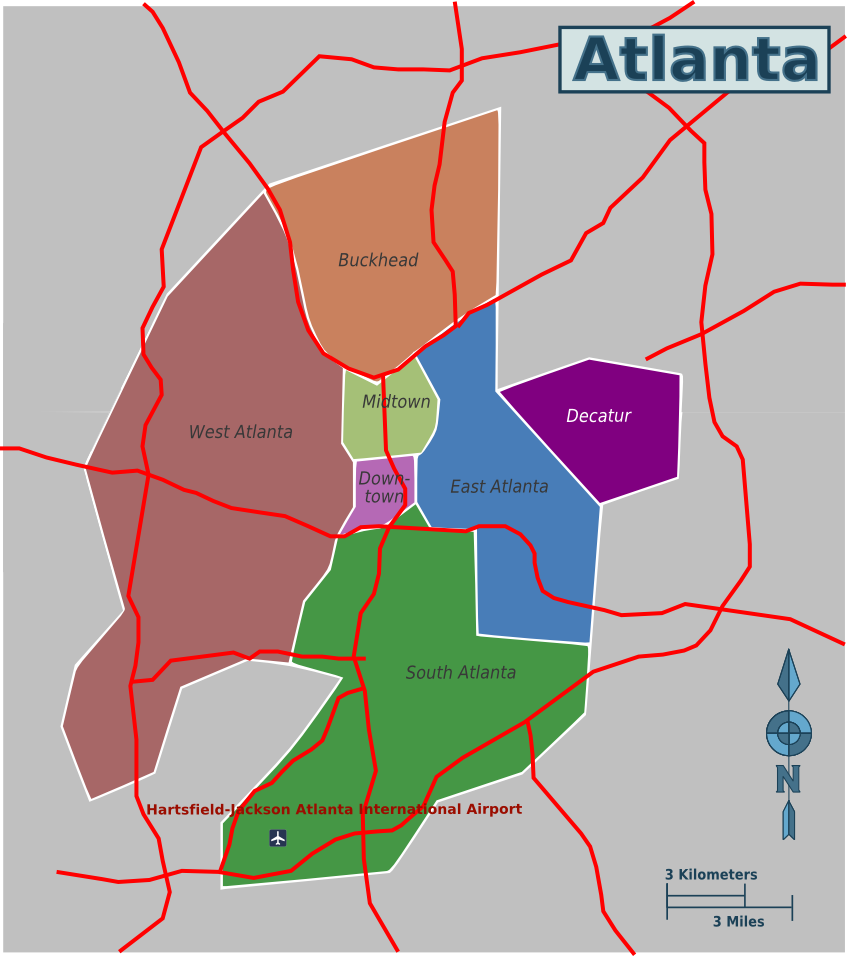 Wikivoyage districts map of Atlanta.